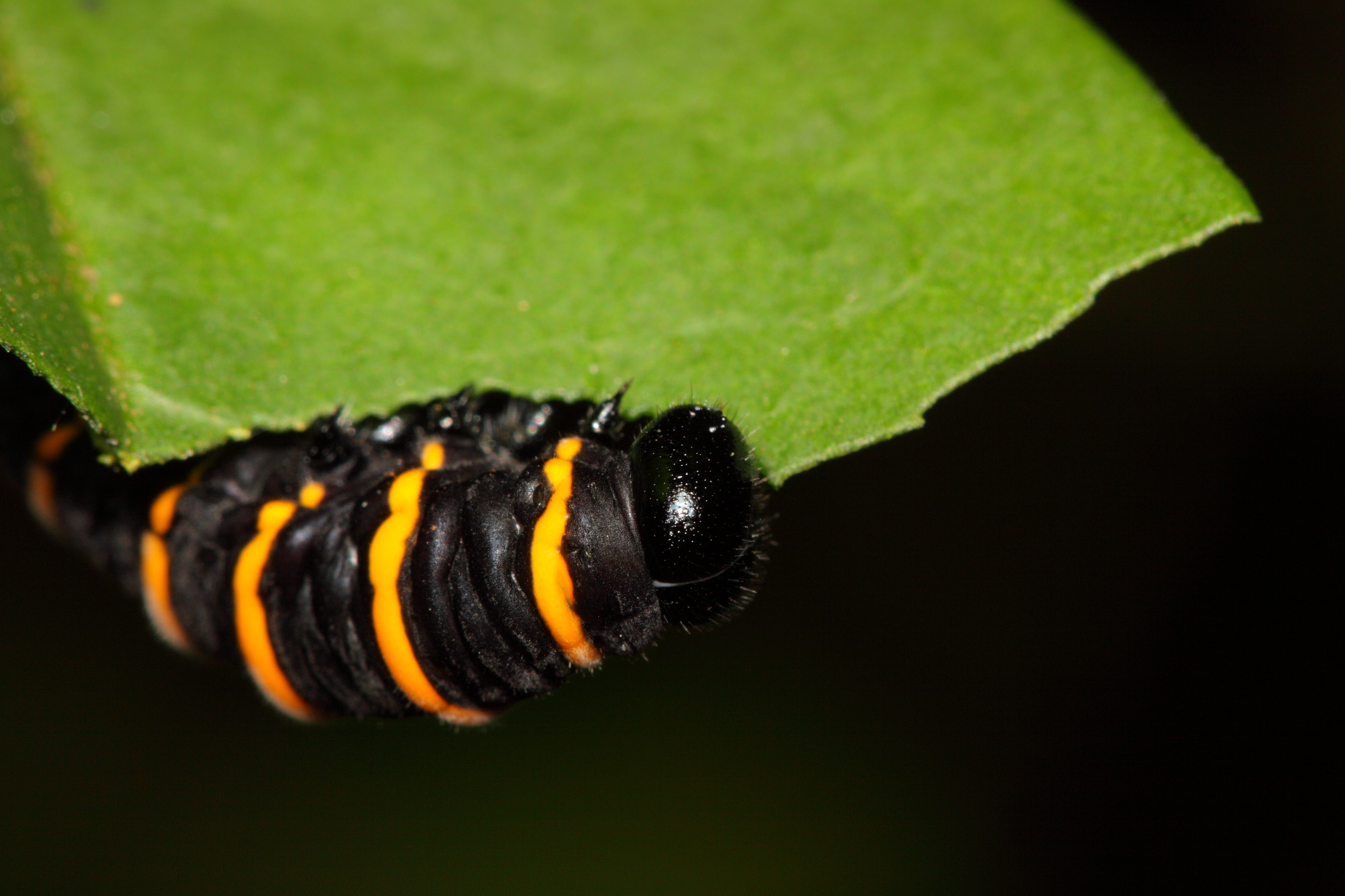 Methona themisto caterpillar in Campinas, São Paulo, Brazil